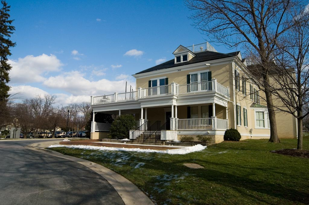 Photograph of Gaithersburg, Maryland City Hall